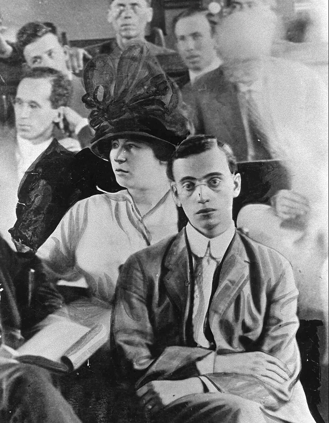 Leo and Lucille Frank during his trial, 1915